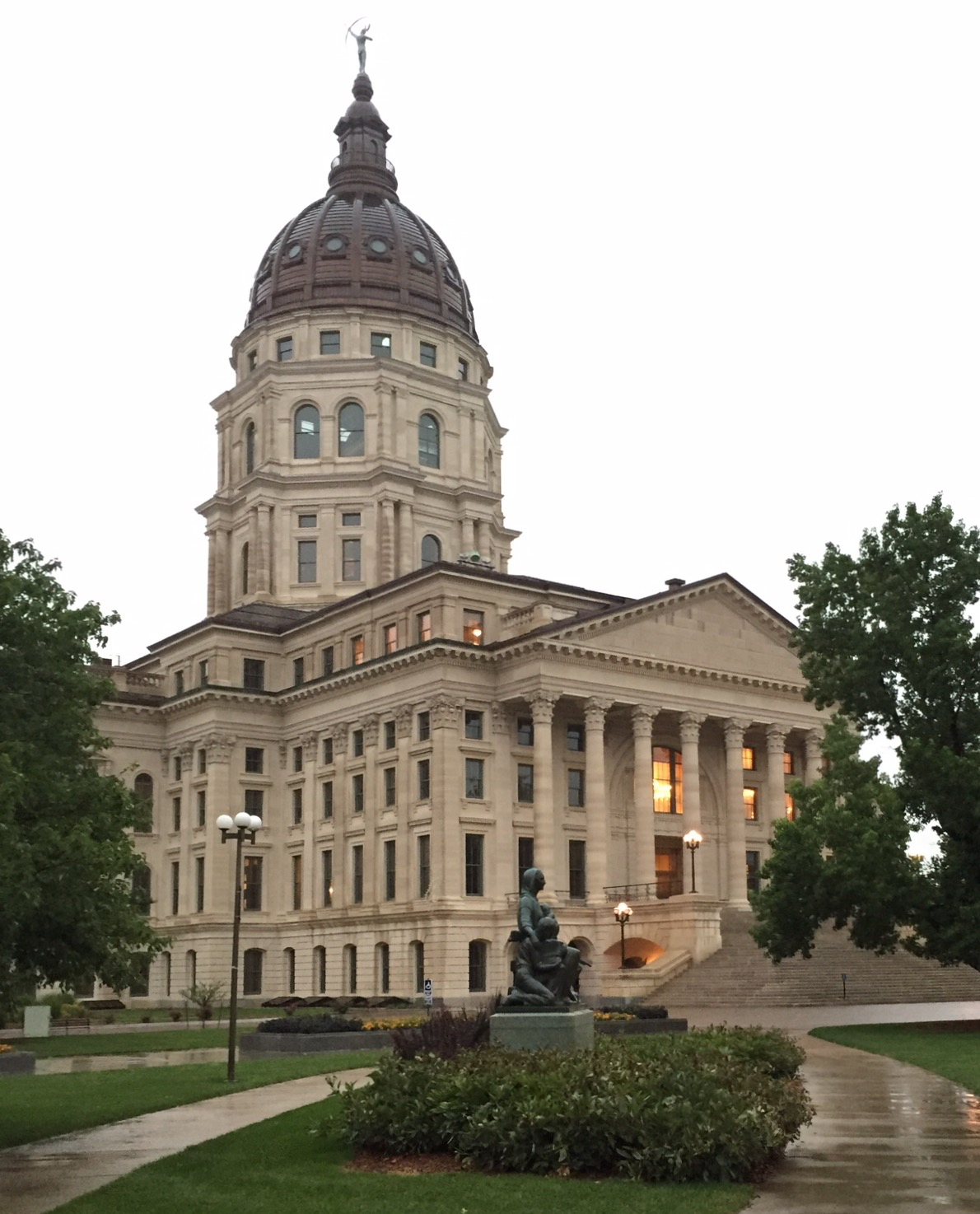 The Kansas State Capitol as of 2015